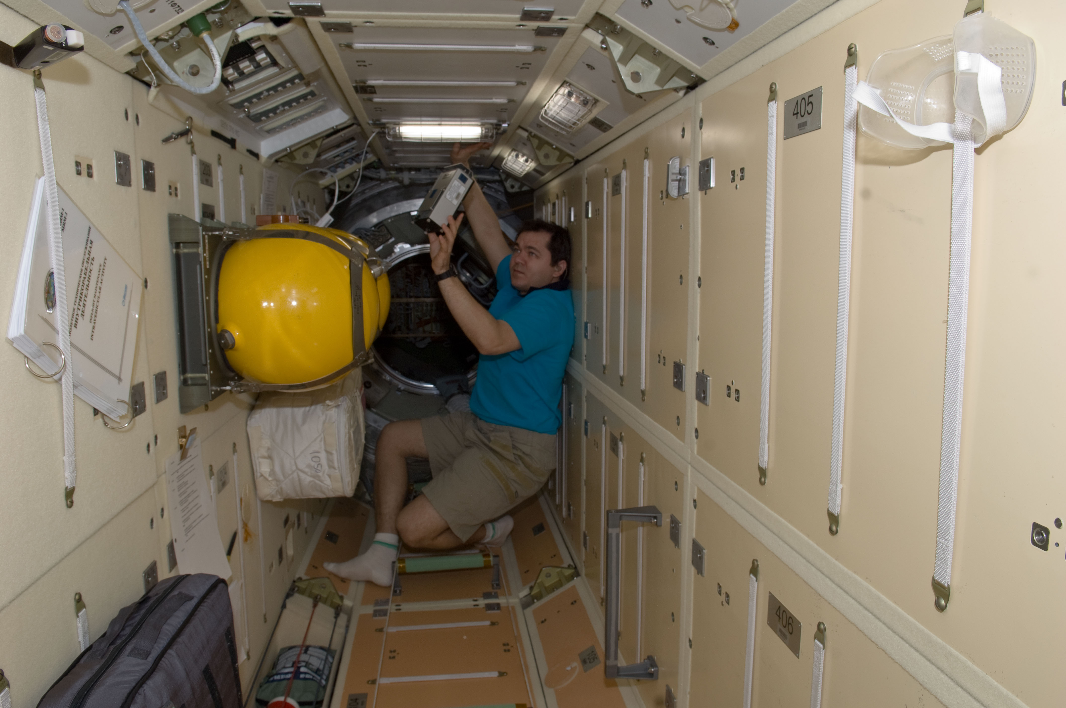 ISS-26 crew image of the interior of Rassvet Russian cosmonaut Oleg Skripochka, Expedition 26 flight engineer, uses the Russian Tekh-38 VETEROK ("Breeze") science hardware to take aero-ionic concentration measurements in the Rassvet Mini-Research Module 1 (MRM1) of the International Space Station.